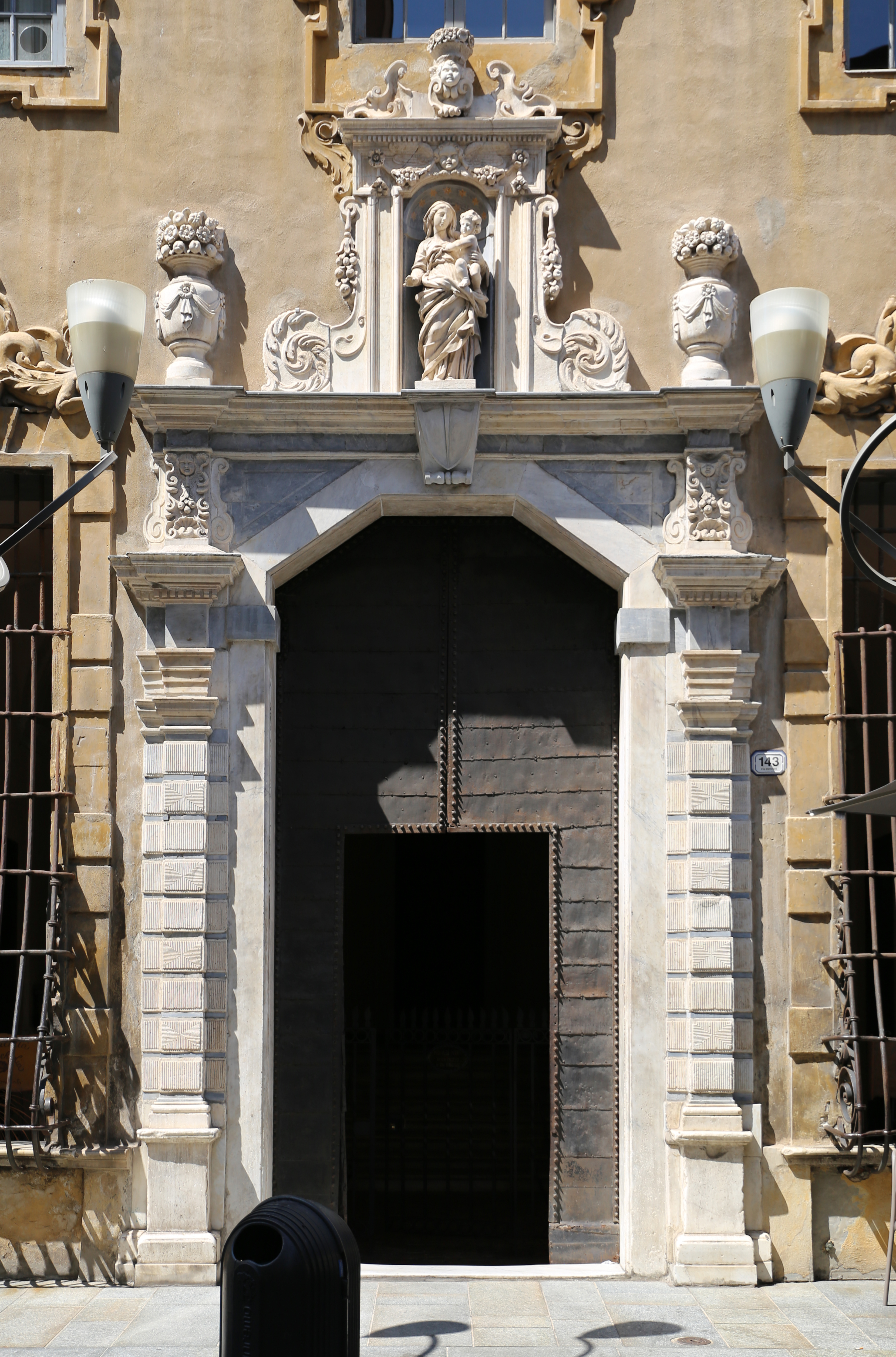 Sanremo